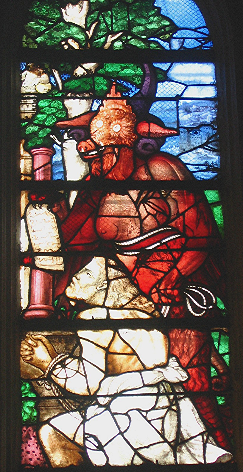 Les Andelys, church Notre Dame, stain glass, 16th century, Normandy.